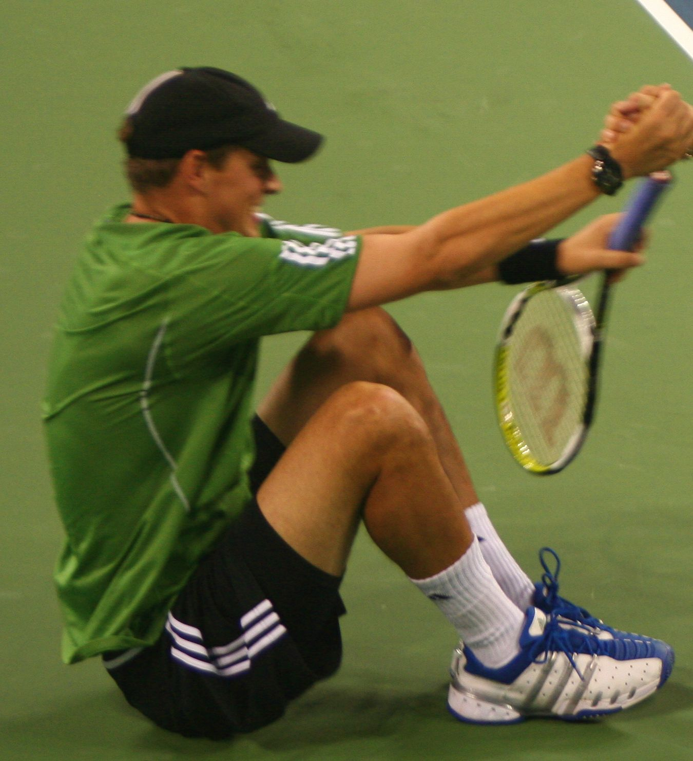 Bob Bryan at the USopen